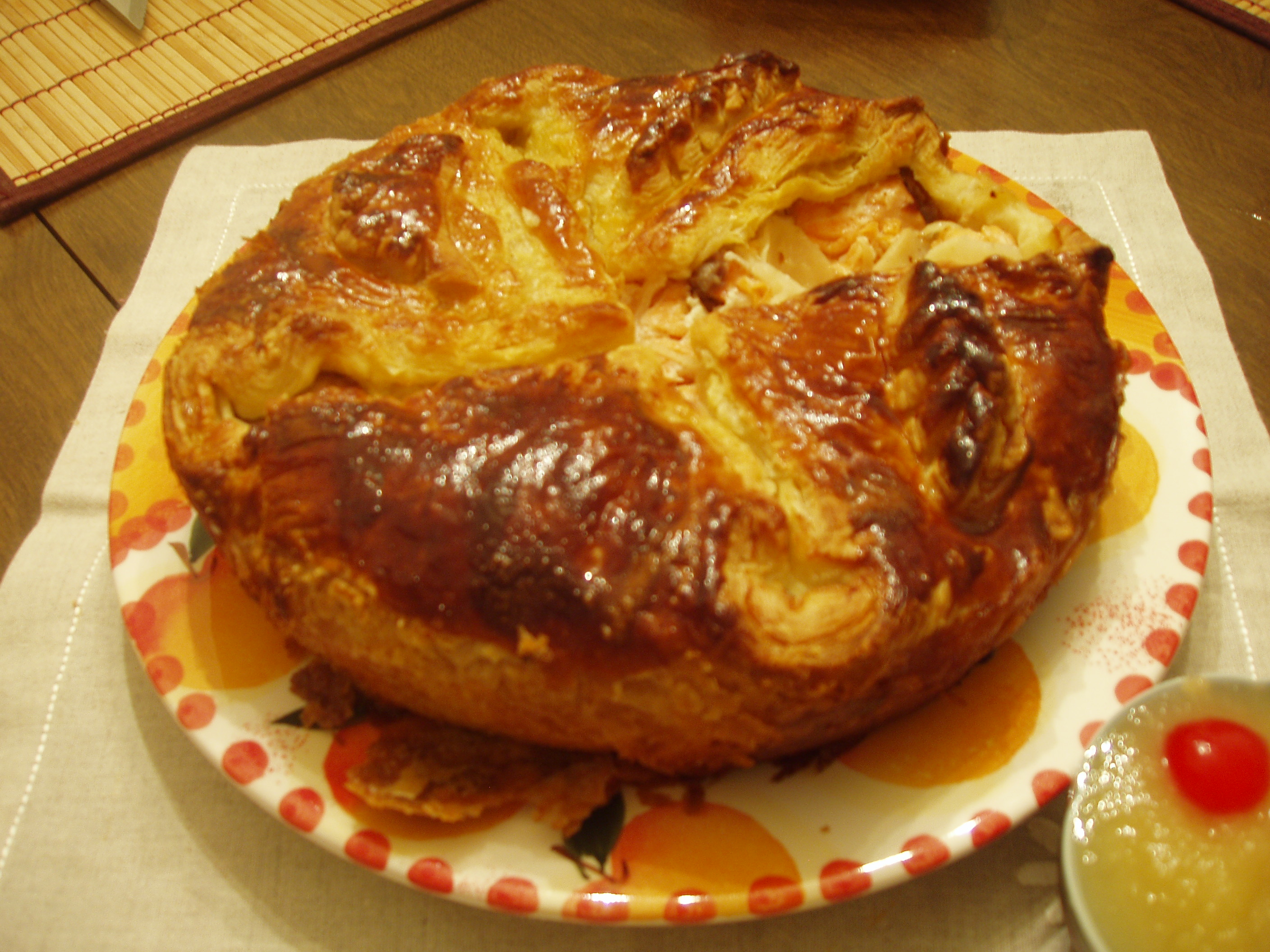 fish pie